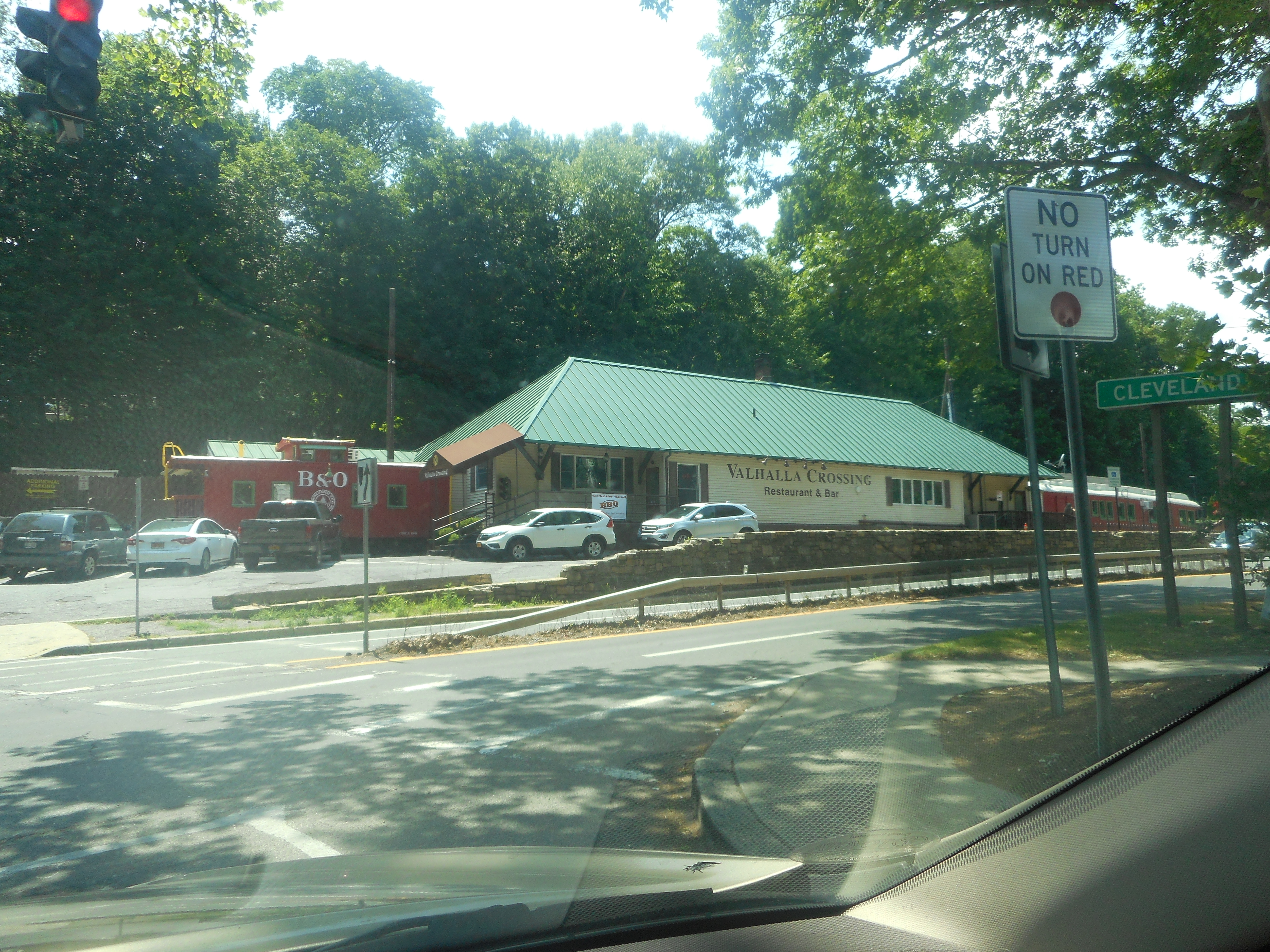 One of two shots of the former Valhalla New York Central Railroad Station, currently a station restaurant near the current Valhalla Metro-North station off of Taconic State Parkway in Valhalla, New York. Attached to the station are a 1910 Baltimore and Ohio Railroad caboose, and an 1896 Lake Shore and Michigan Southern Railway passenger car, which from what I've read is also a popular railfanning site.